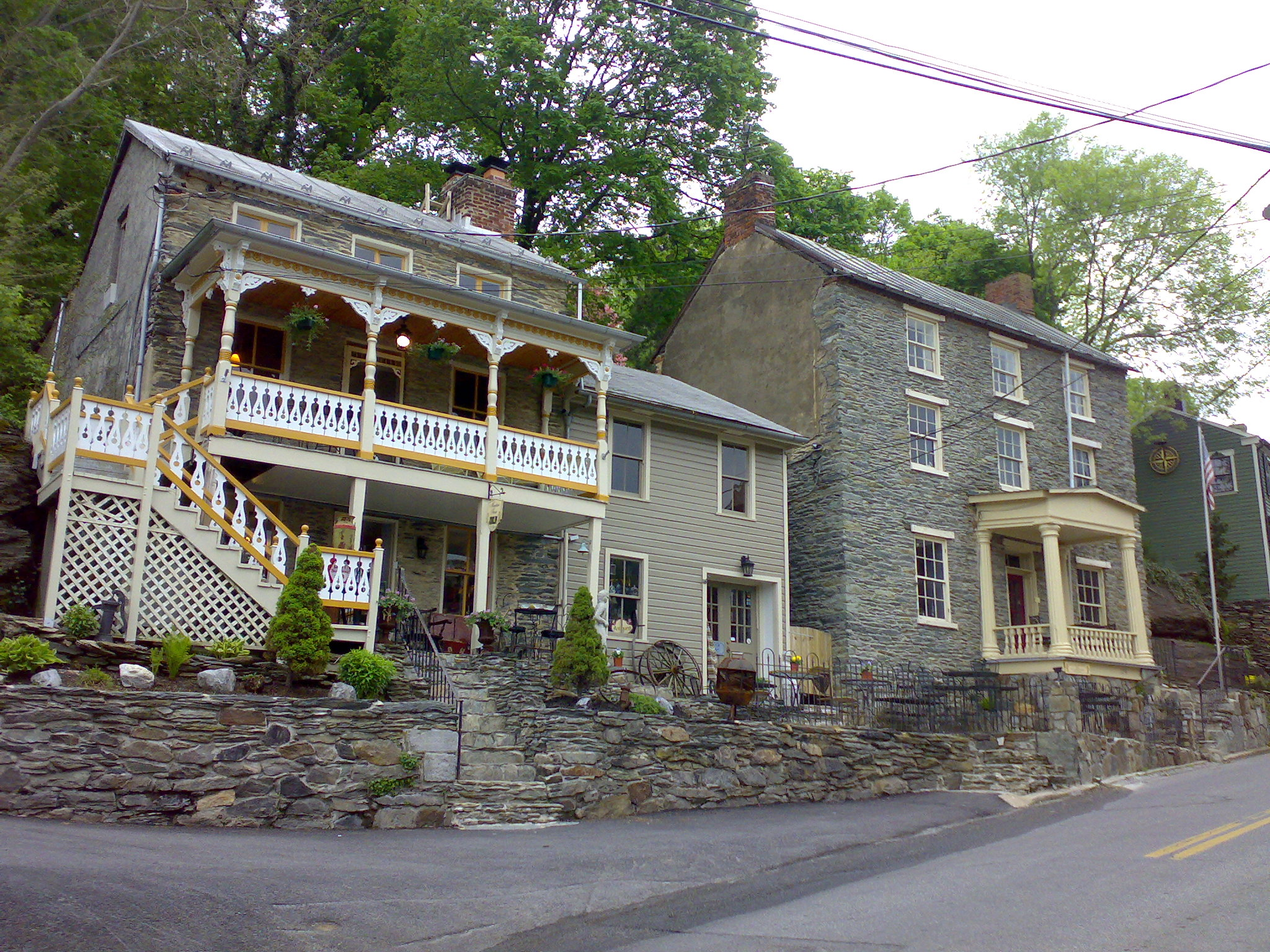 Harpers Ferry, WV